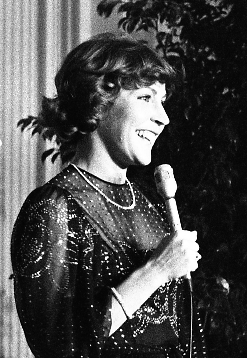 1976, January 27 – East Room – The White House – Washington, DC – Carol Burnett, Helen Reddy – standing on stage, singing – State Visit of Israeli Prime Minister&Mrs. Yitzhak Rabin-State Dinner-Entertainment (metadata)